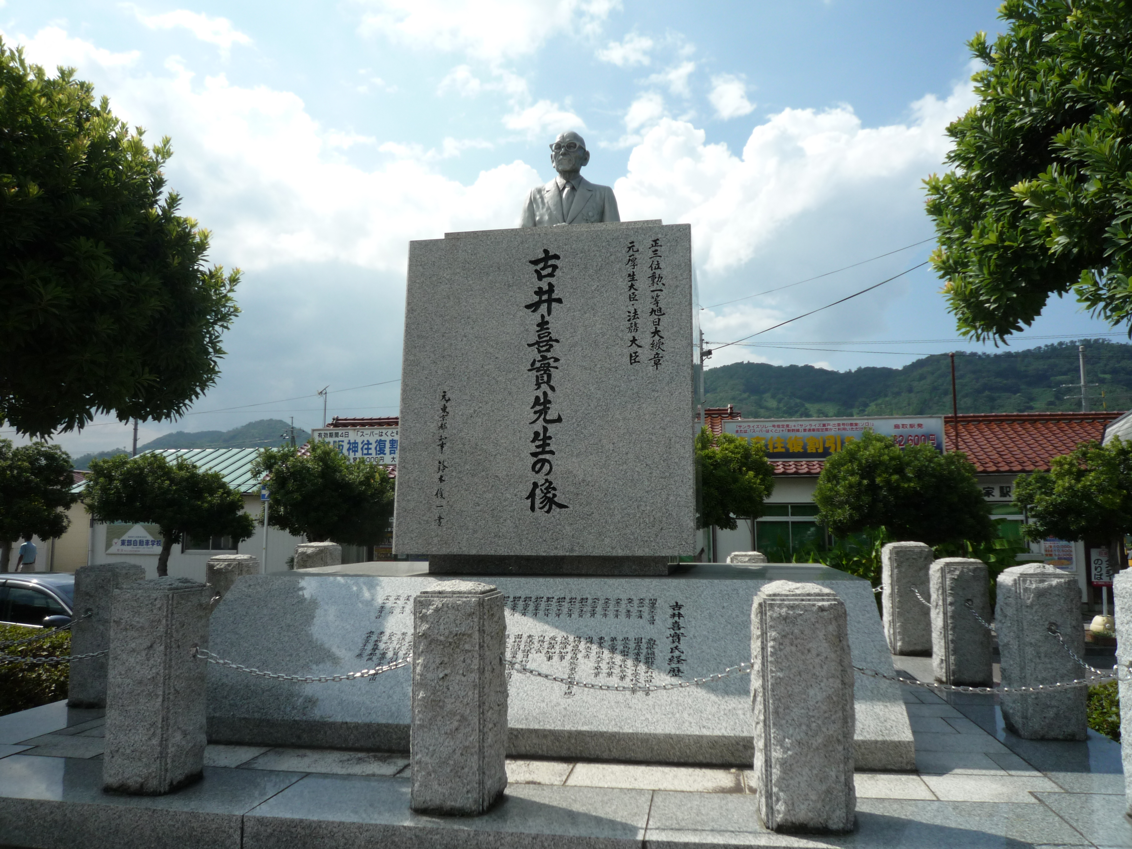 Stone statue of Yoshimi Furui at Kōge Station, Yazu Town, Tottori Prefecture, Japan.